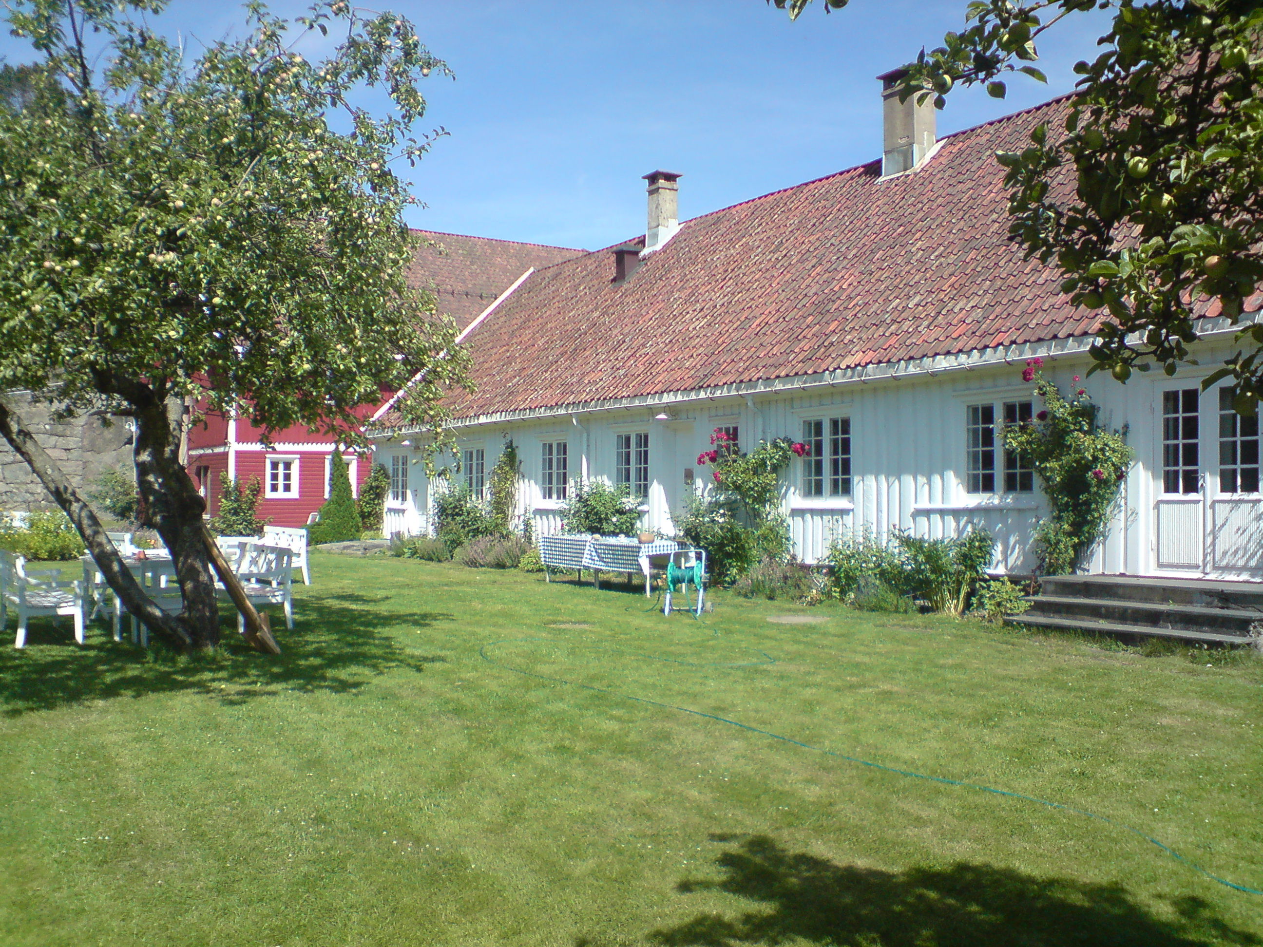 Old parsh farm house at Søgne, Norway